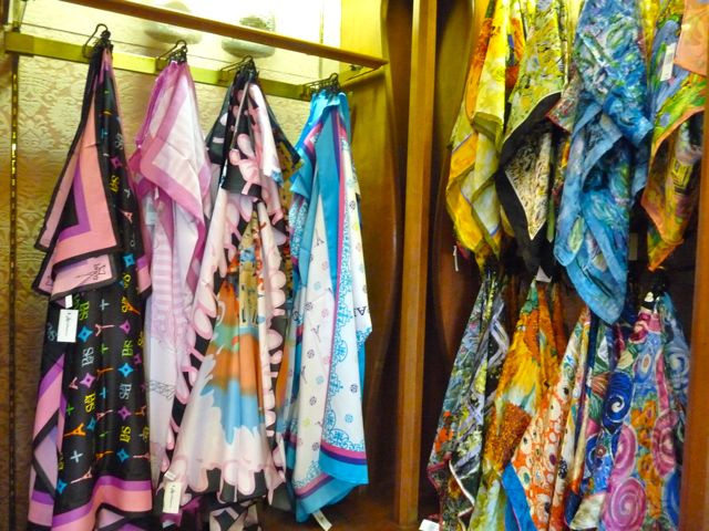 Silk scarves at the Givenchy store at Epcot park, United States